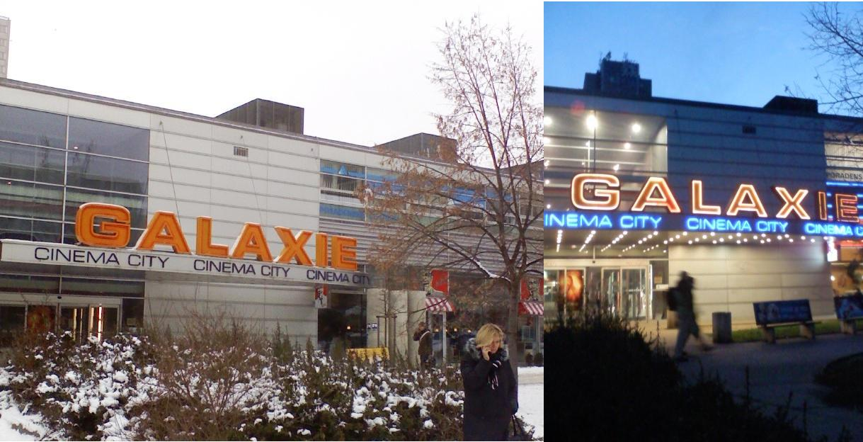 Cinema City Galaxie in Prague